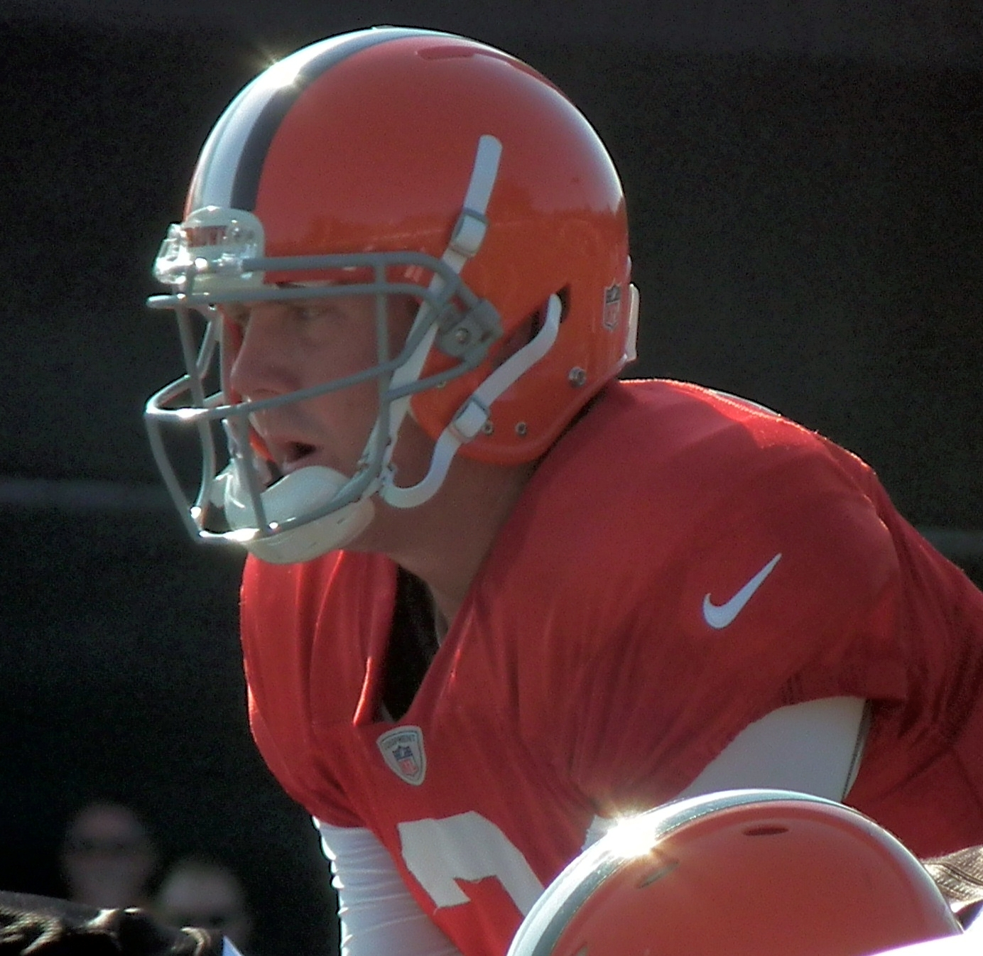 Brandon Weeden of the Cleveland Browns, 2012